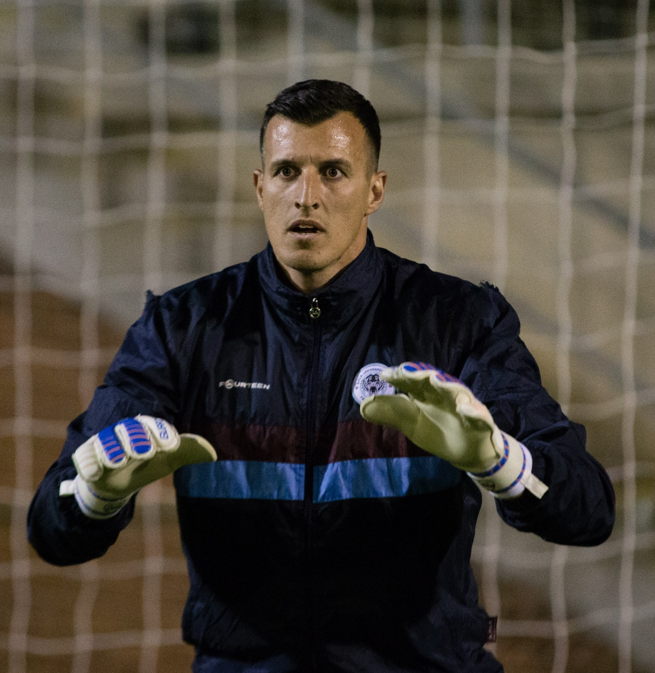 Ivan Necevski warming up for NSW NPL side APIA